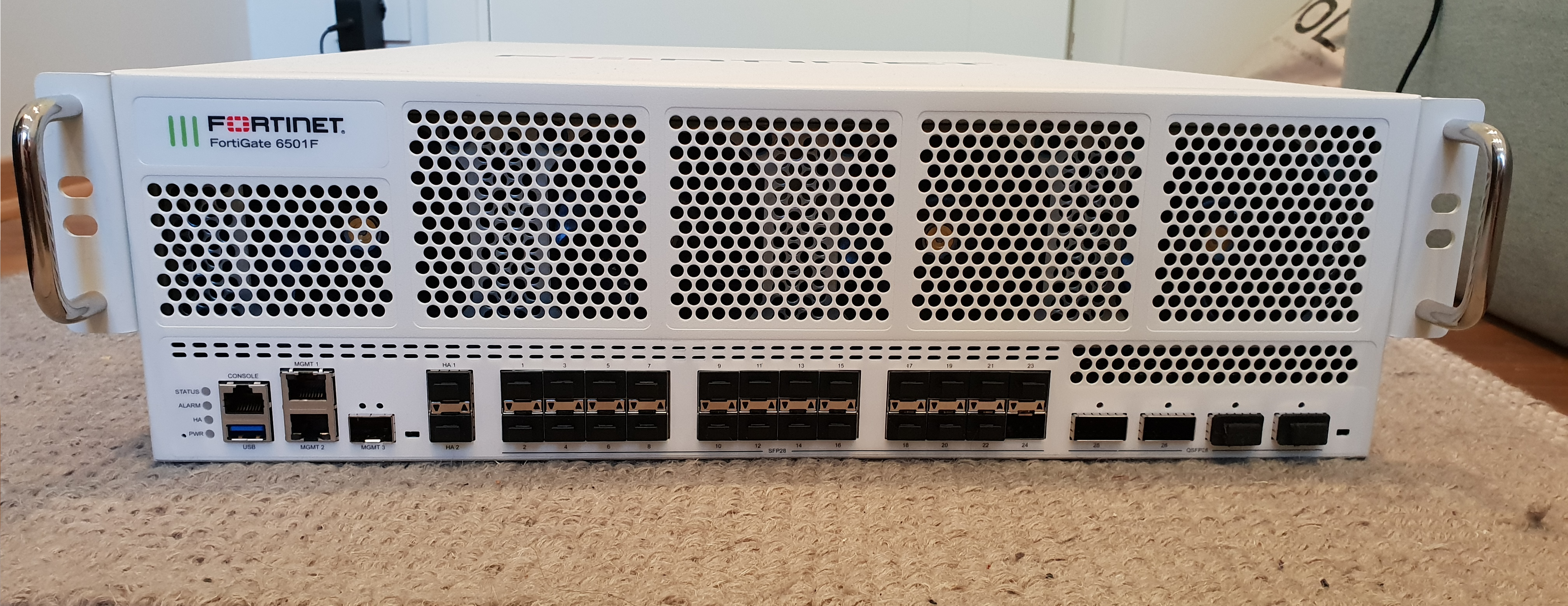 Photo of the firewall Fortinet FortiGate 6501F.